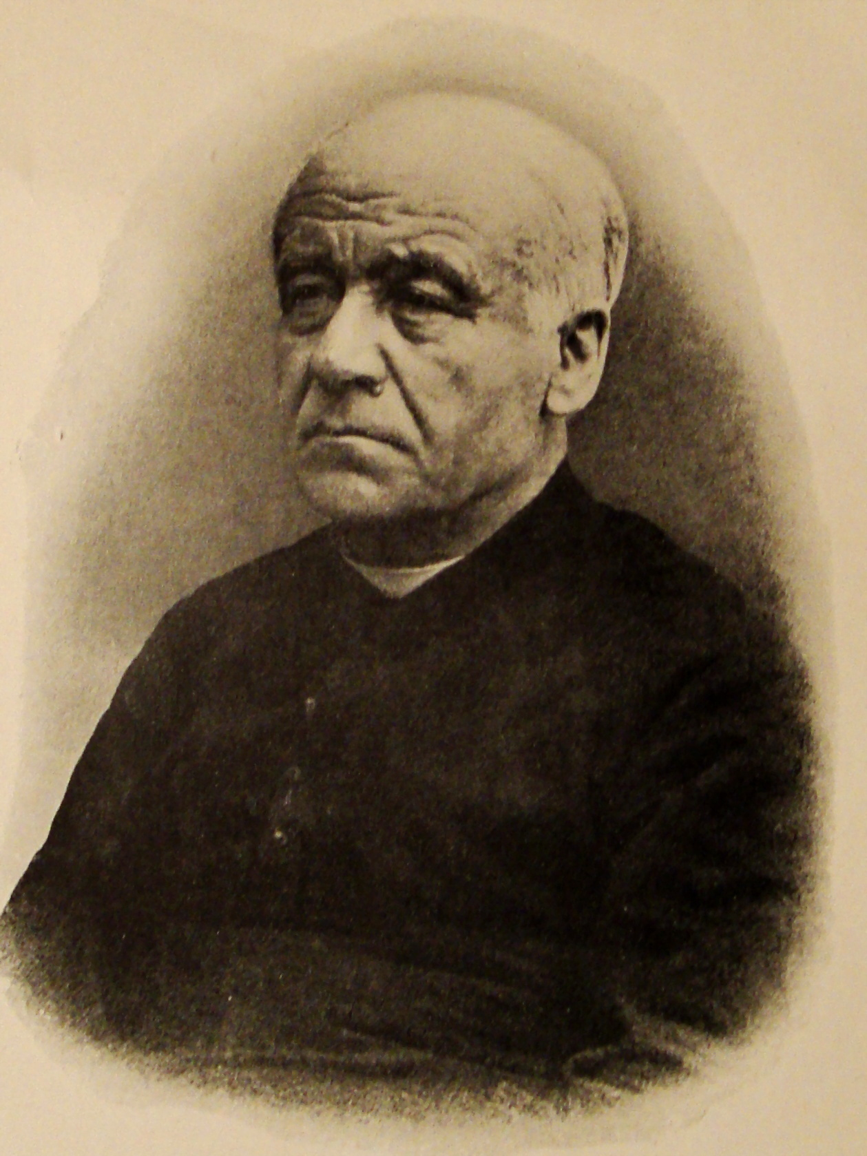 Guido Gezelle, picture taken from old photo (19th century) in my personal possession, of unknown origine